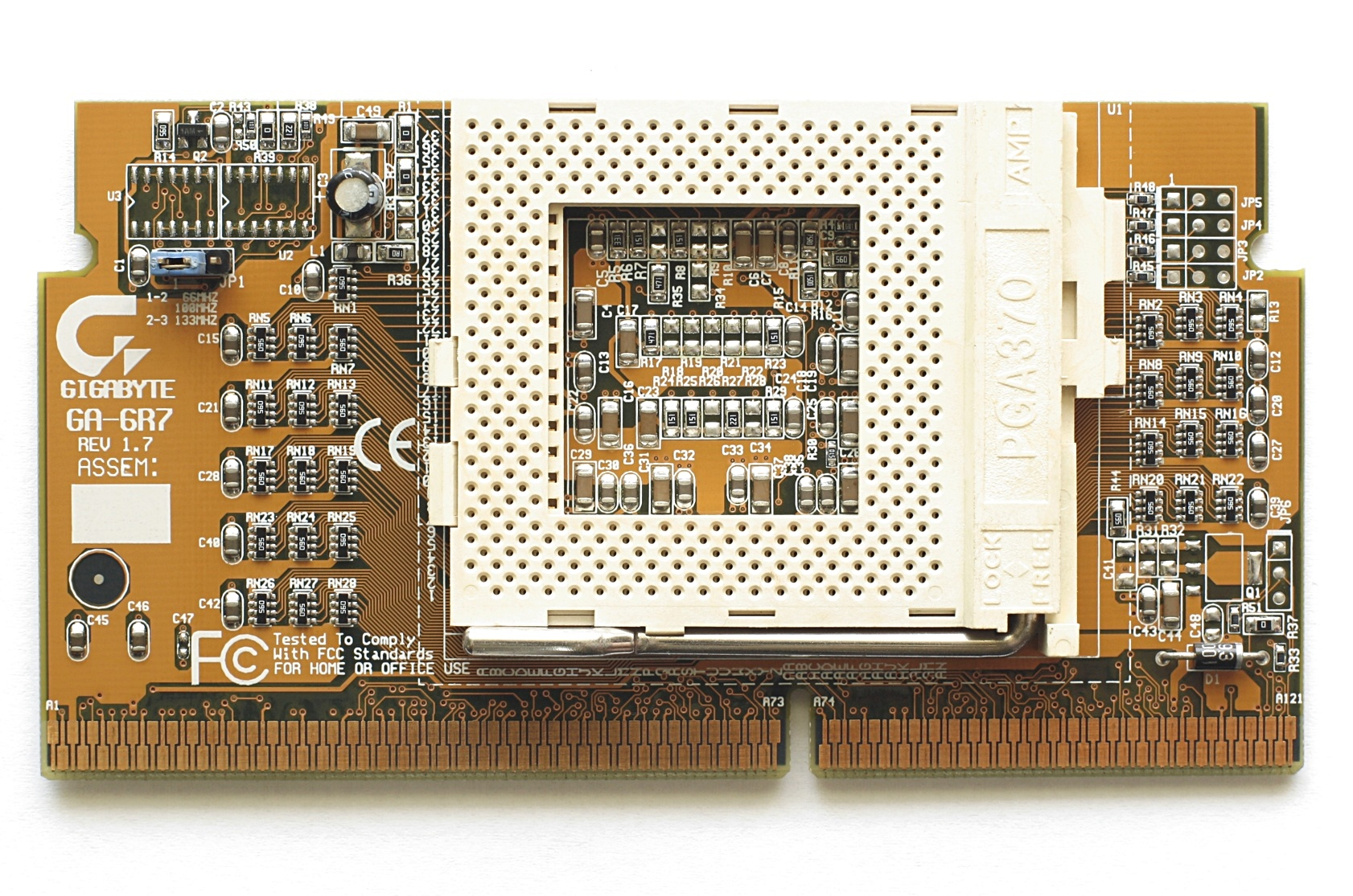 Socket 370 to Slot 1 adaptor GA-6R7, made by GIGABYTE Technology Co., Ltd.